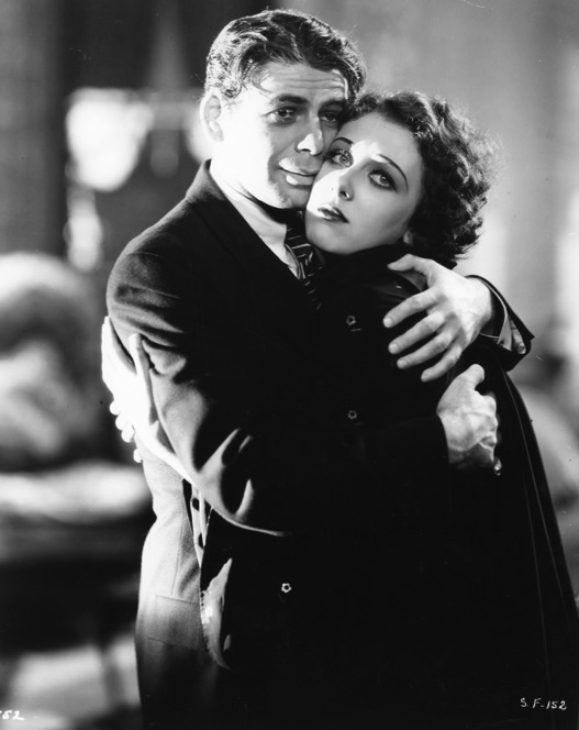 Promotional photograph for the American crime film Scarface (1932) starring Paul Muni and Ann Dvorak.